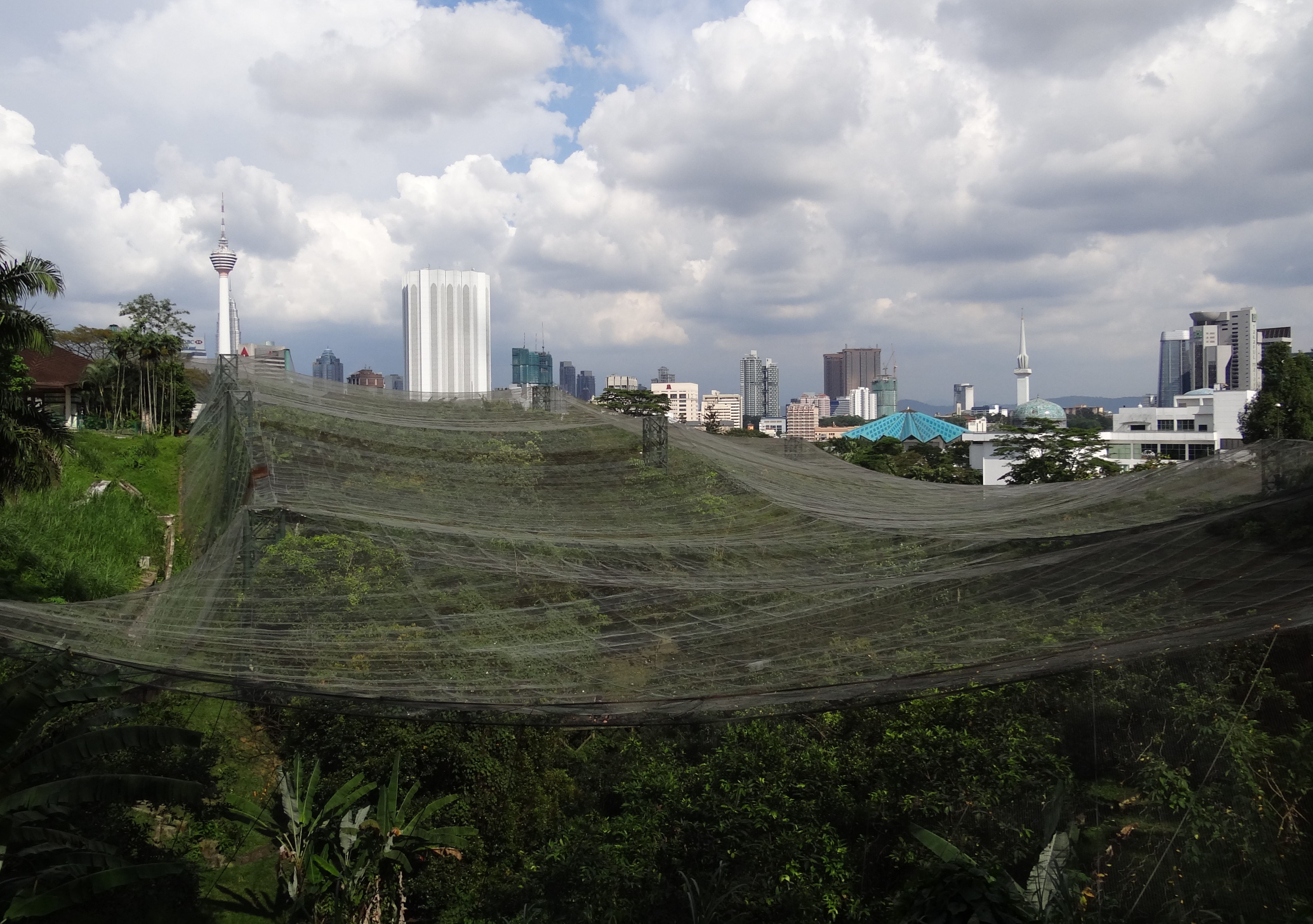 A view of the Kuala Lumpur Bird Park aviary, seen from the west. In the background several other KL landmarks can be seen; Menara Tower, Petronas Towers, Masjid Negara (National Mosque), Dayabumi.